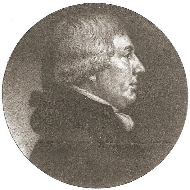 Portrait of Ebenezer Dorr c.1800 Citation from original source Ebenezer Dorr (1739-1809) Philadelphia, 1800 Inscription on plate "Drawn & engrd. by St. Memin Philada:" No 271 NPG (D. 203): "Eb: Door. 1800.) CGA (folio 15): "Eb. Door." Added after "Eb" in another hand: "en" BN" "Door" Source of identification: Inscriptions; descendants. In 1775 Ebenezer Dorr, like Paul Revere (q.v.), rode from Boston to warn residents of Massachesetts about the advancing British army. After the Revolution, Dorr became a merchant in the China trade. Ref: Esther Forbes, Paul Revere and the World He Lived In (rev.ed.; New York, 1983) p. 475